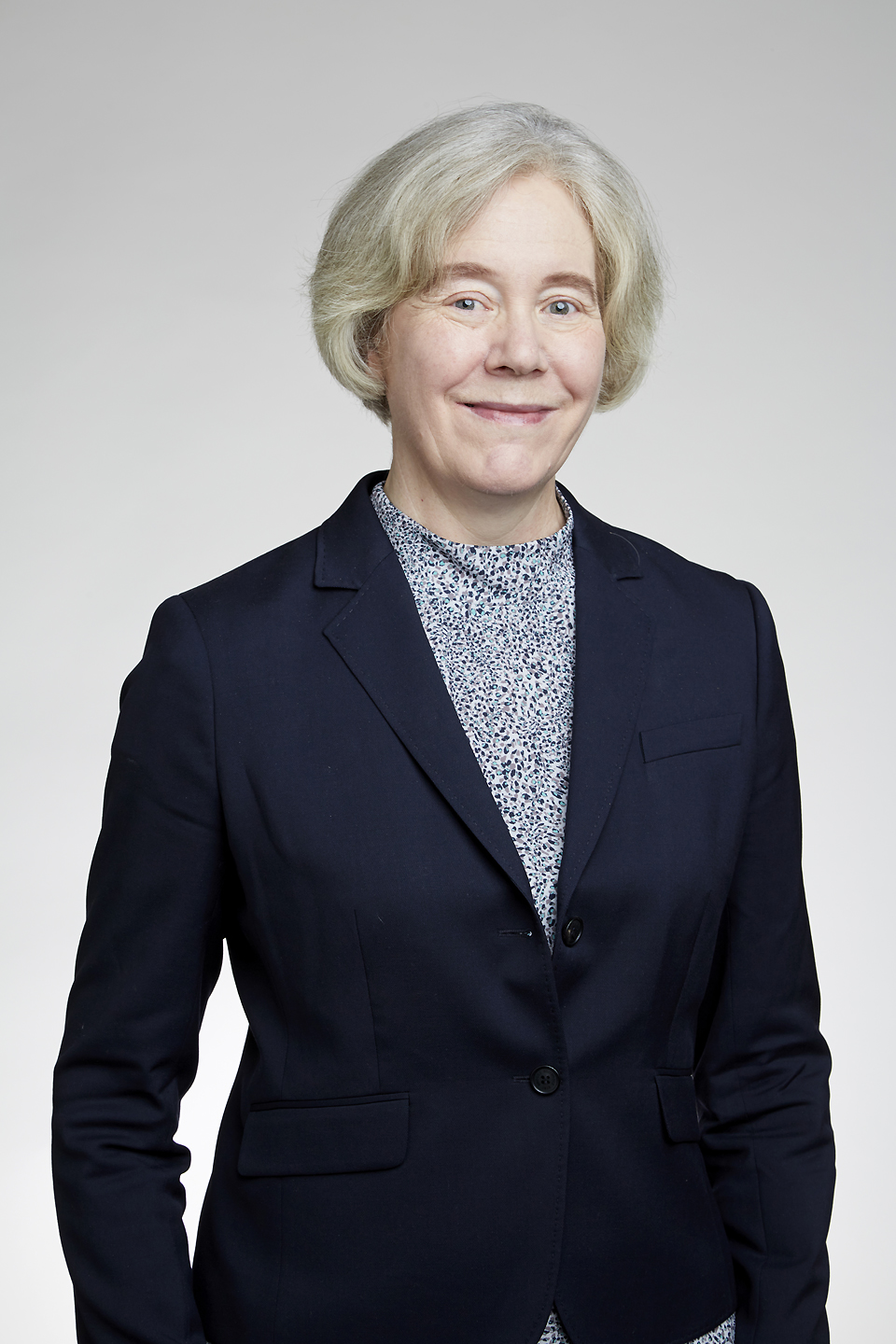 Ellen D. Williams (born December 5, 1953 in Oshkosh, Wisconsin) is an American scientist, best known for her research in surface properties and nanotechnology, for her engagement with technical issues in national security, as chief scientist of BP, and for government service as director of ARPA-E. Attribution: The Royal Society